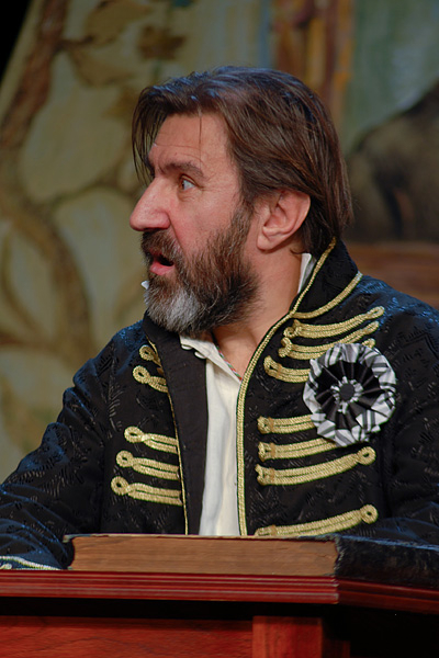 The hungarian actor Károly Eperjes.